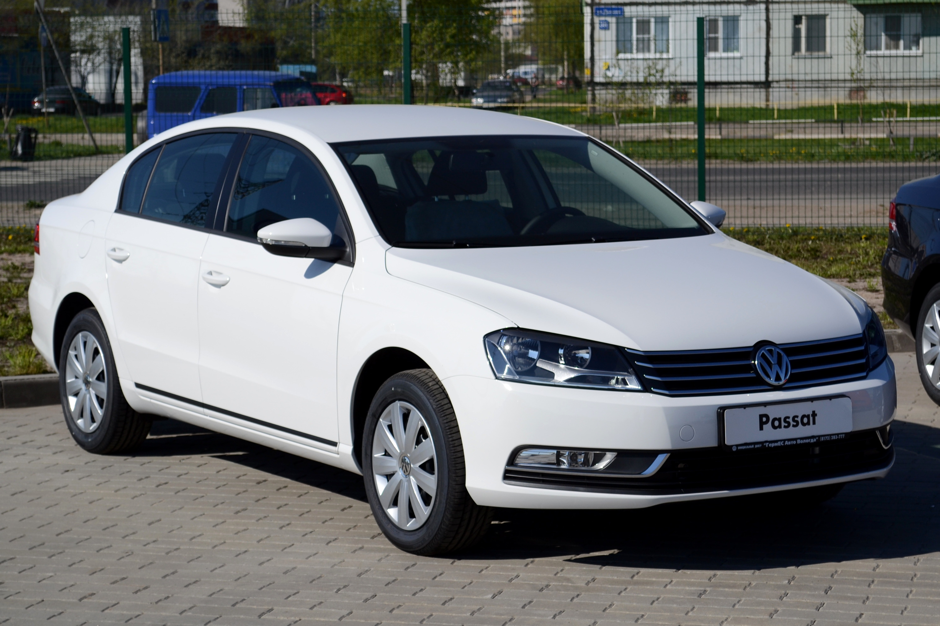 Volkswagen Passat B7